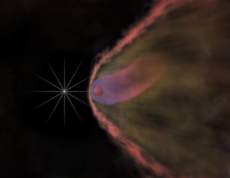 An artist's impression of the optical and X-ray emission surrounding the "Black Widow" pulsar B1957+20